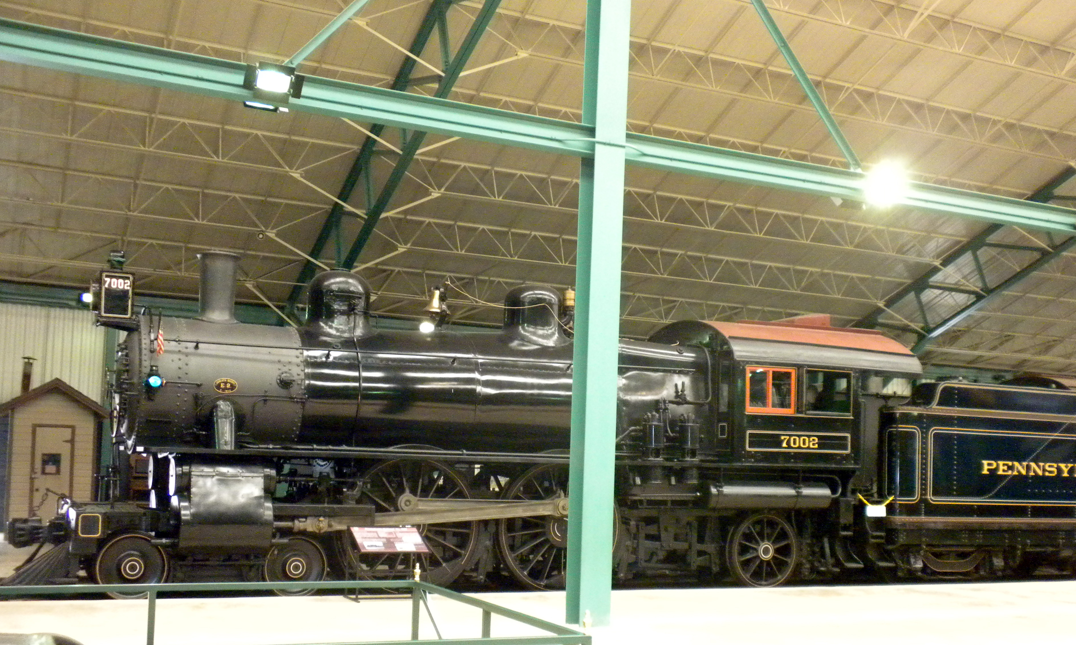 PRR steam locomotive No. 7002 at the Railroad Museum of Pennsylvania, east of Strasburg, PA. Built in Juniata shops 1902. Originally No. 8063. Prior No. 7002 scrapped in 1934. "Represents world's record speed holder (127.1 mph) in 1905" according to RRMoP. On NRHP since December 17, 1979